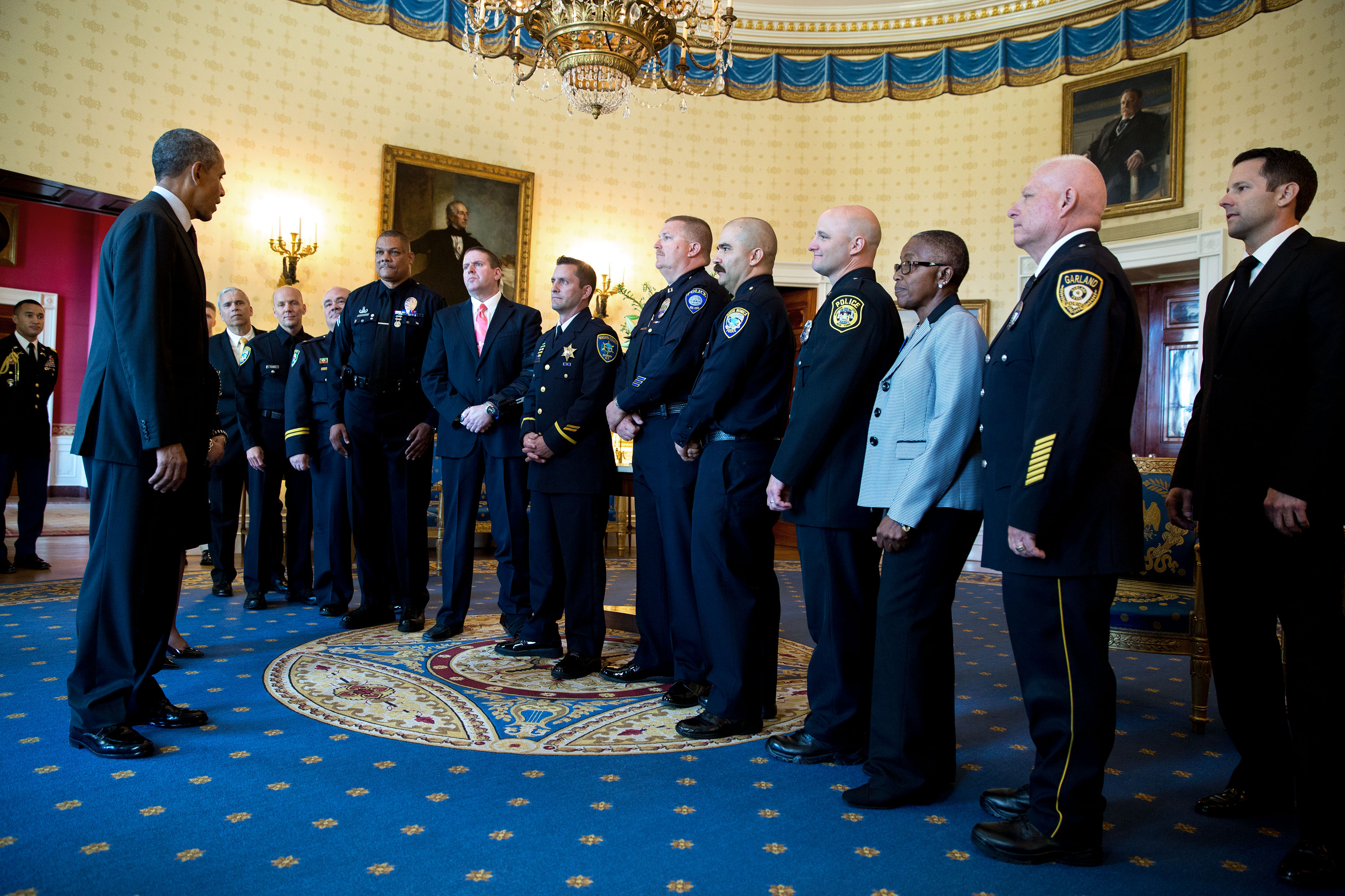 President Barack Obama addresses 12 Medal of Valor recipients and Constance Wilson (third from right,) the grandmother of a posthumous recipient, in the Blue Room prior to the Medal of Valor ceremony in the East Room of the White House, May 16, 2016. (Official White House Photo by Pete Souza)